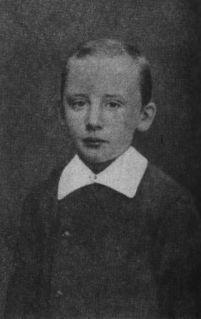 Dutch physicist Antonius van den Broek (1870-1926) as a child